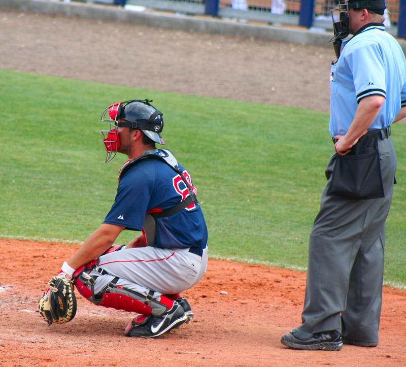 Description George Kottaras catching during Spring Training of 2009. Date3-07-09SourceI created this work entirely by myself.AuthorHappyHarvick2962 (talk) 23:45, 5 April 2009 . . HappyHarvick2962 . . 800×723 (455 KB) George Kottaras catching during Spring Training of 2009.